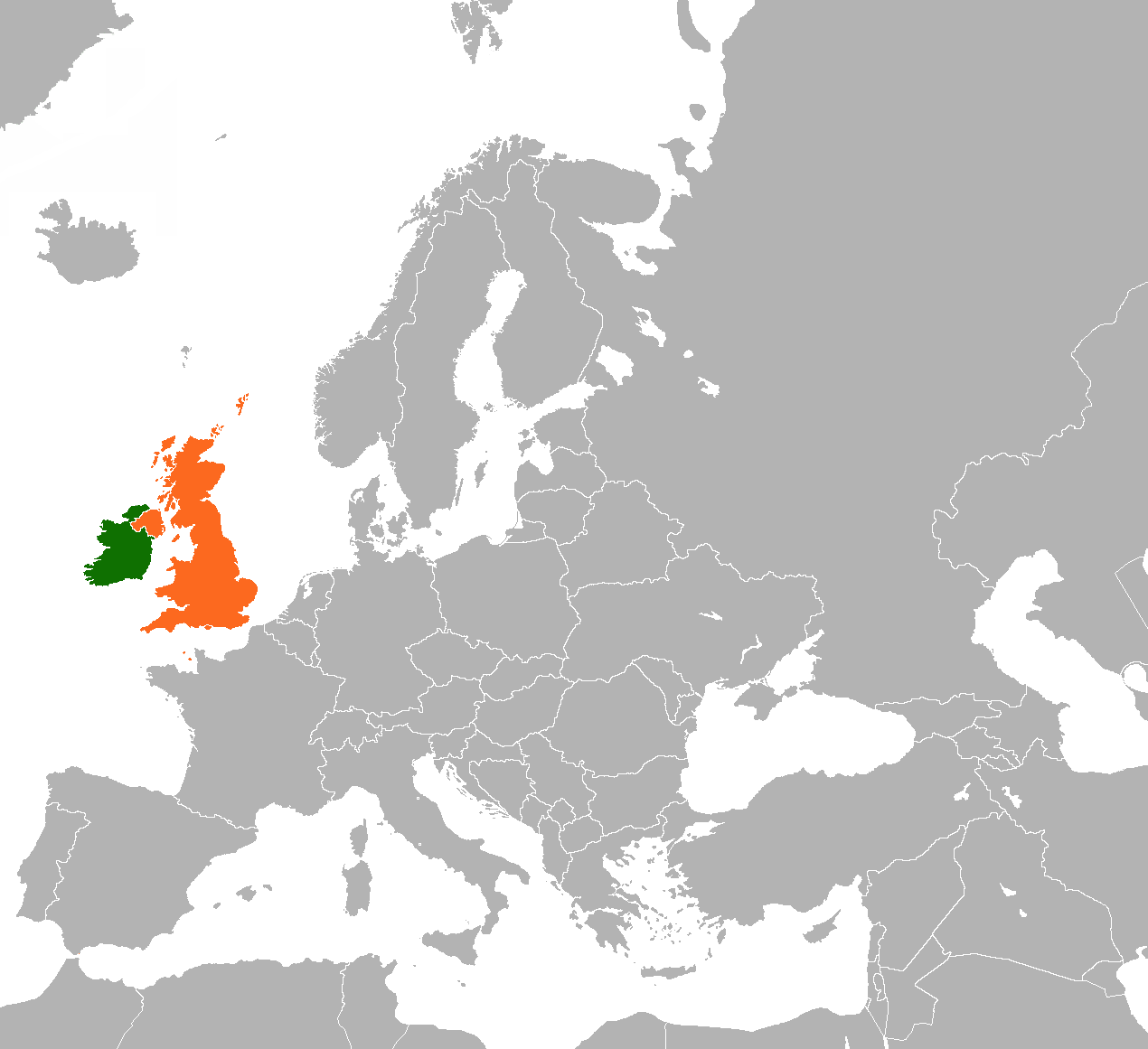 Map of Europe indicating the United Kingdom and Republic of Ireland.